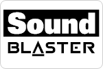 Sound Blaster Logo